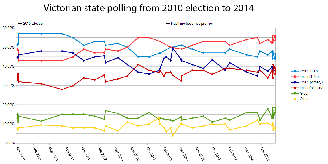 Victoria state election polling 2010 election to 2014 election Created with OpenOffice from data sourced from Victorian state election, 2014.